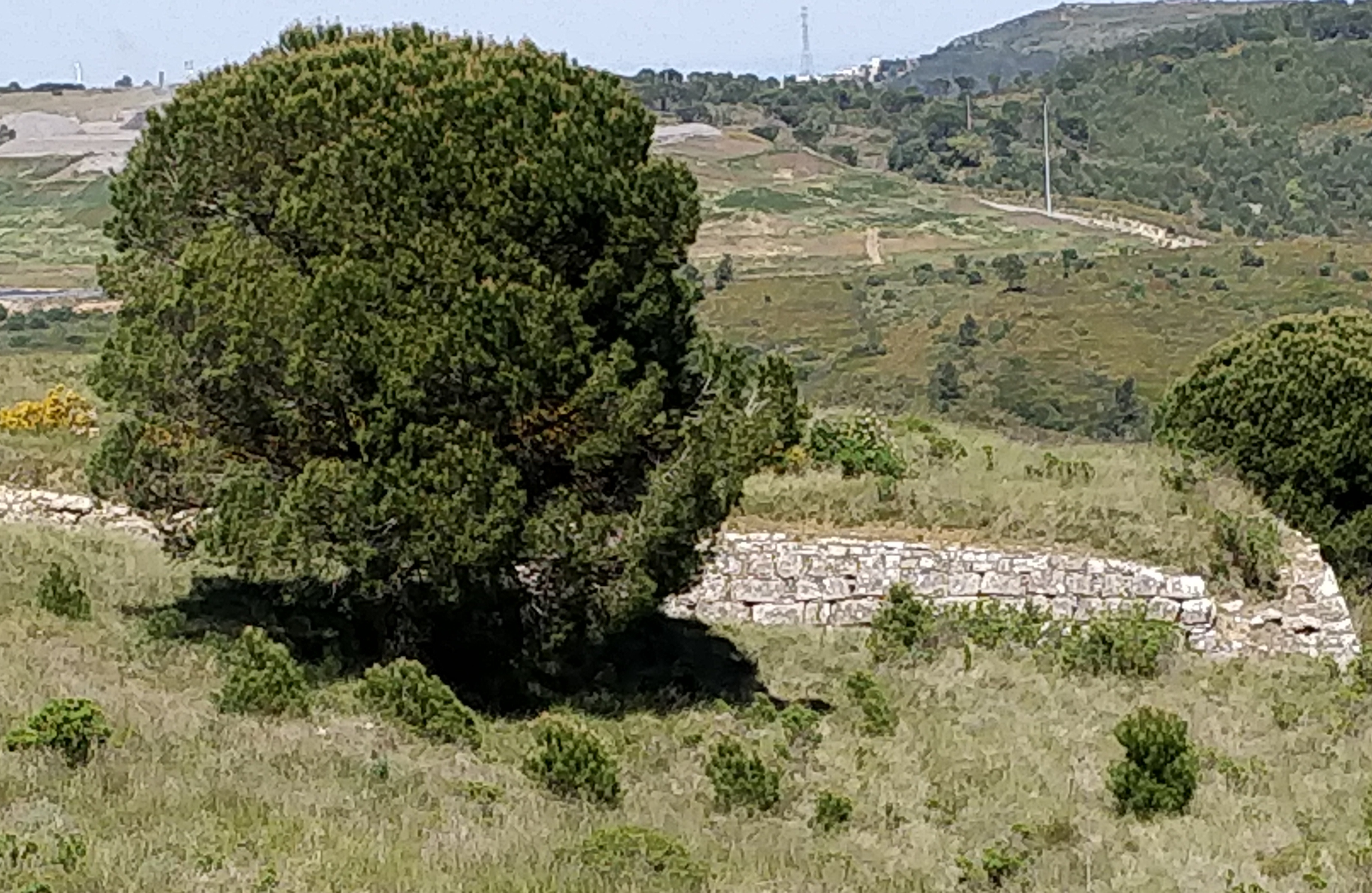 Remains of the Fort of Aguieira, Lisbon District, Portugal, taken from the nearby Fort of Portela Grande